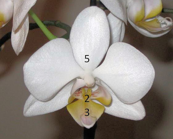 Phalaenopsis orchid petals grow in a Fibonacci number sequence